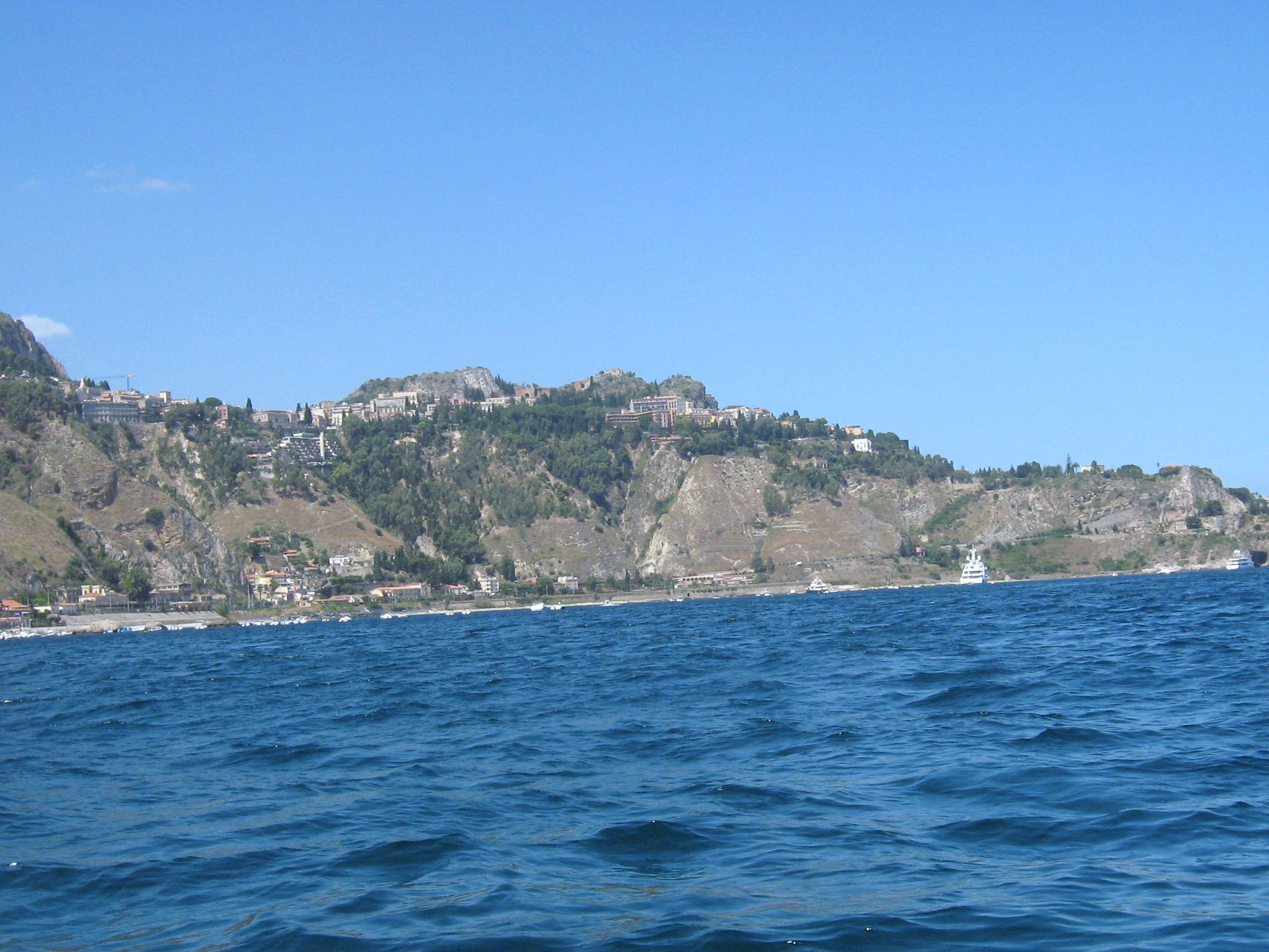 Taormina as viewed from the sea